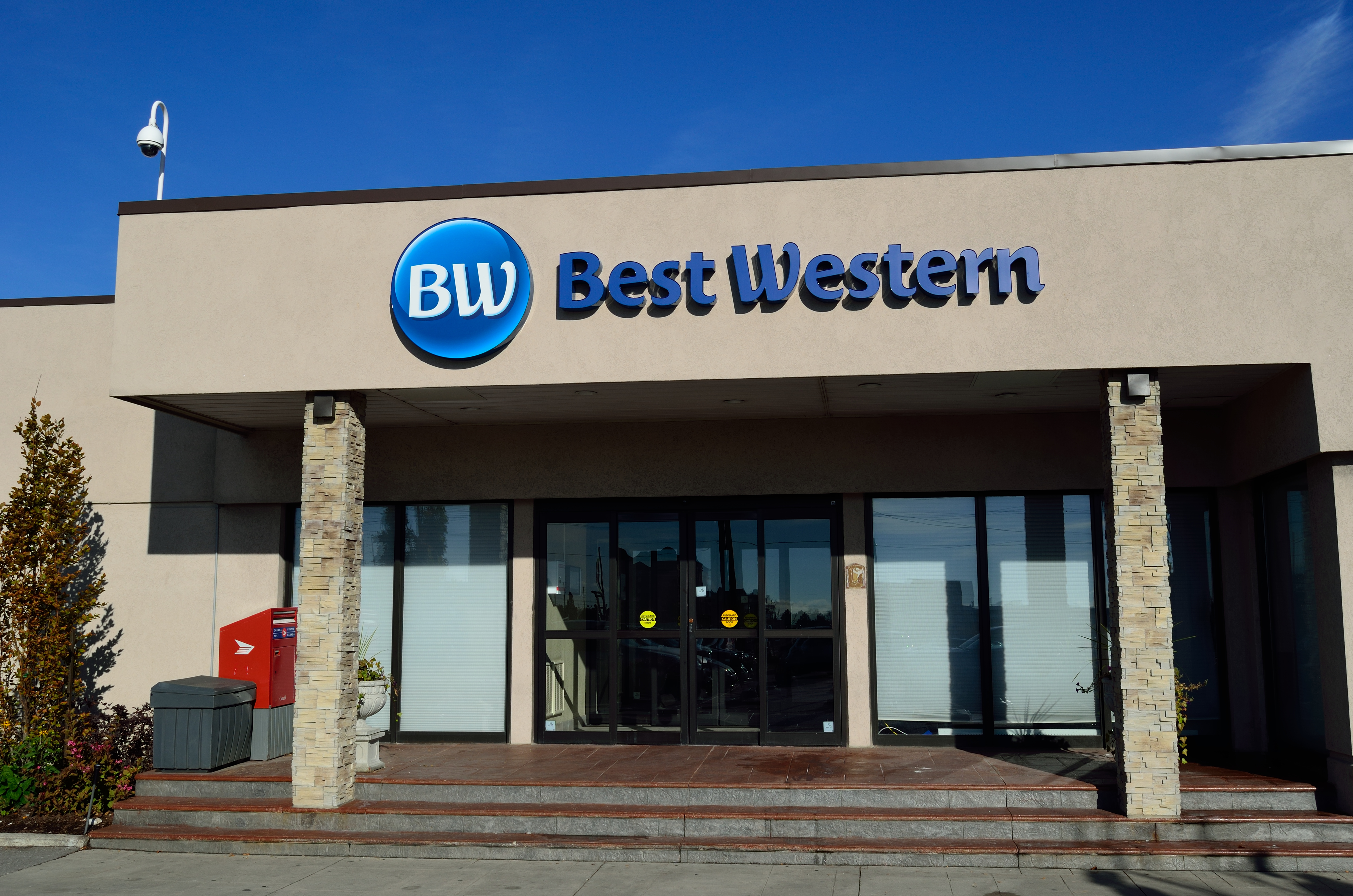 Best Western Parkway Hotel